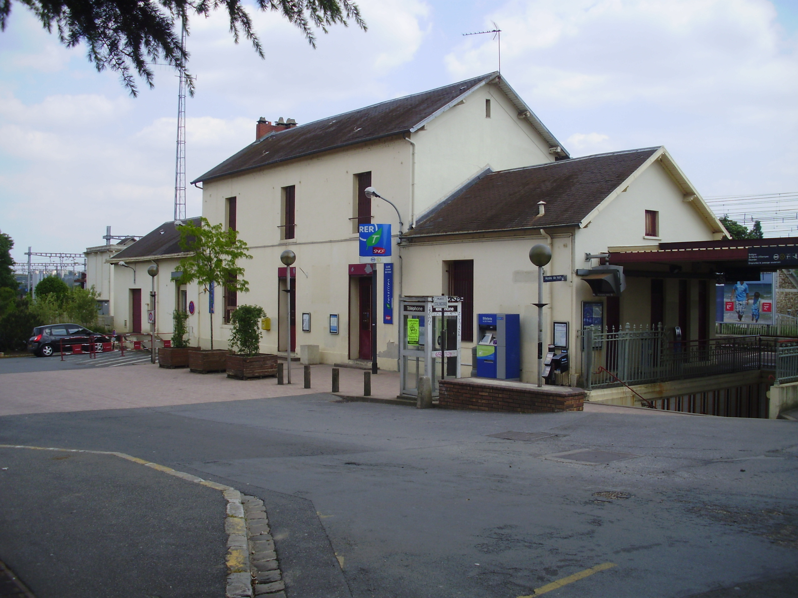 Épinay-sur-Orge station, Essonne, France